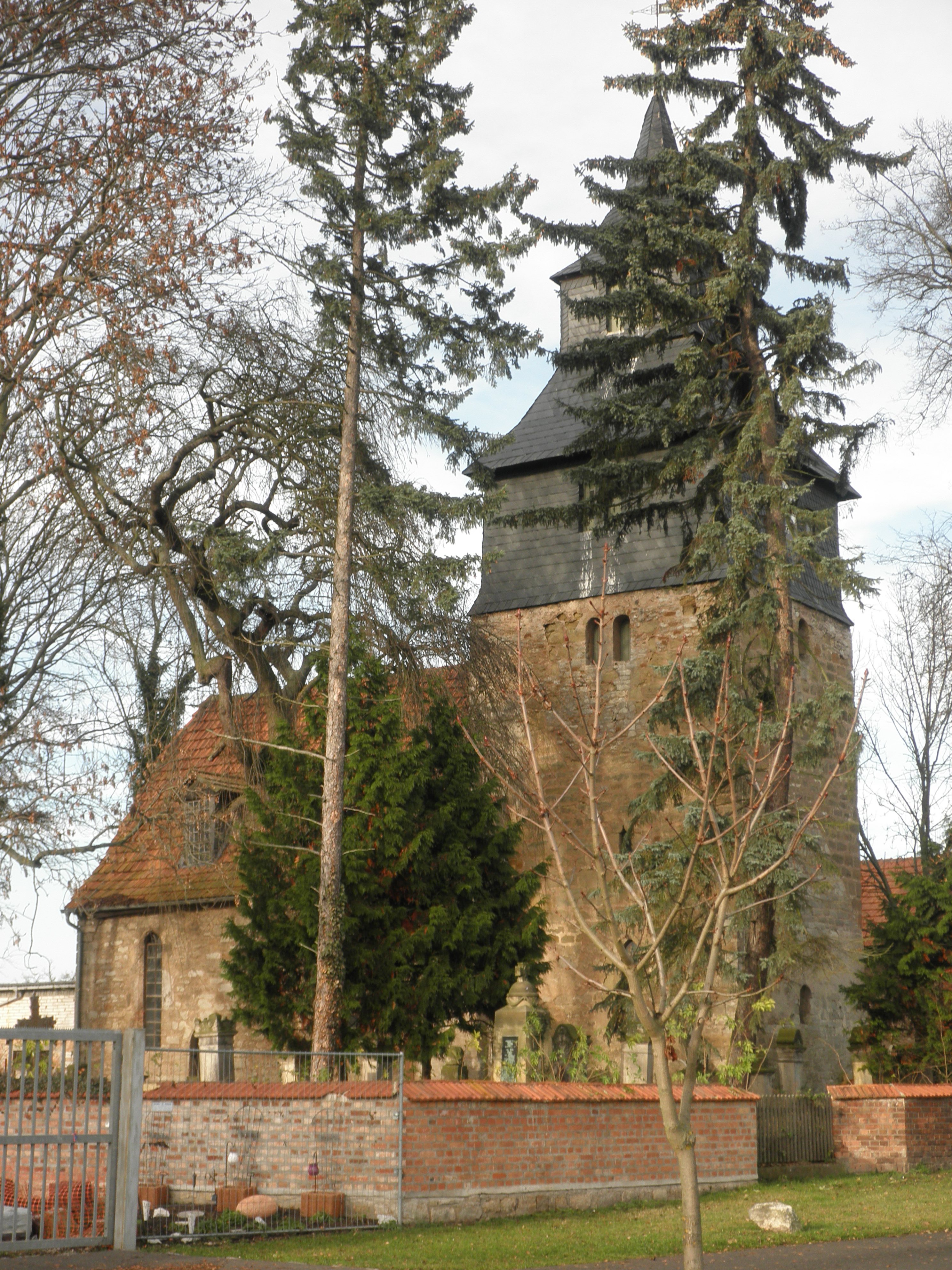 Church in Billeben (Abtsbessingen) in Thuringia